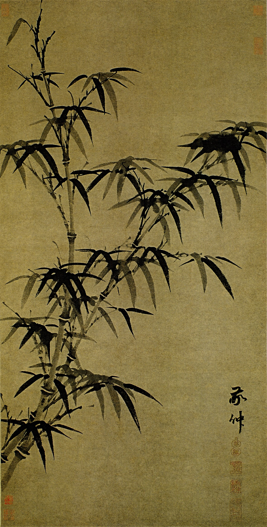 Twin Bamboo, hanging scroll, ink on paper, 86 x 44 cm. Located at the Shanghai Museum.